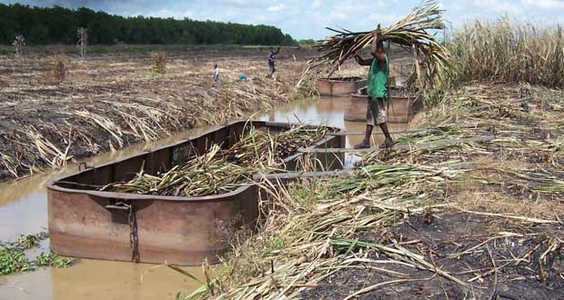 Cutting and loading cane in every weather